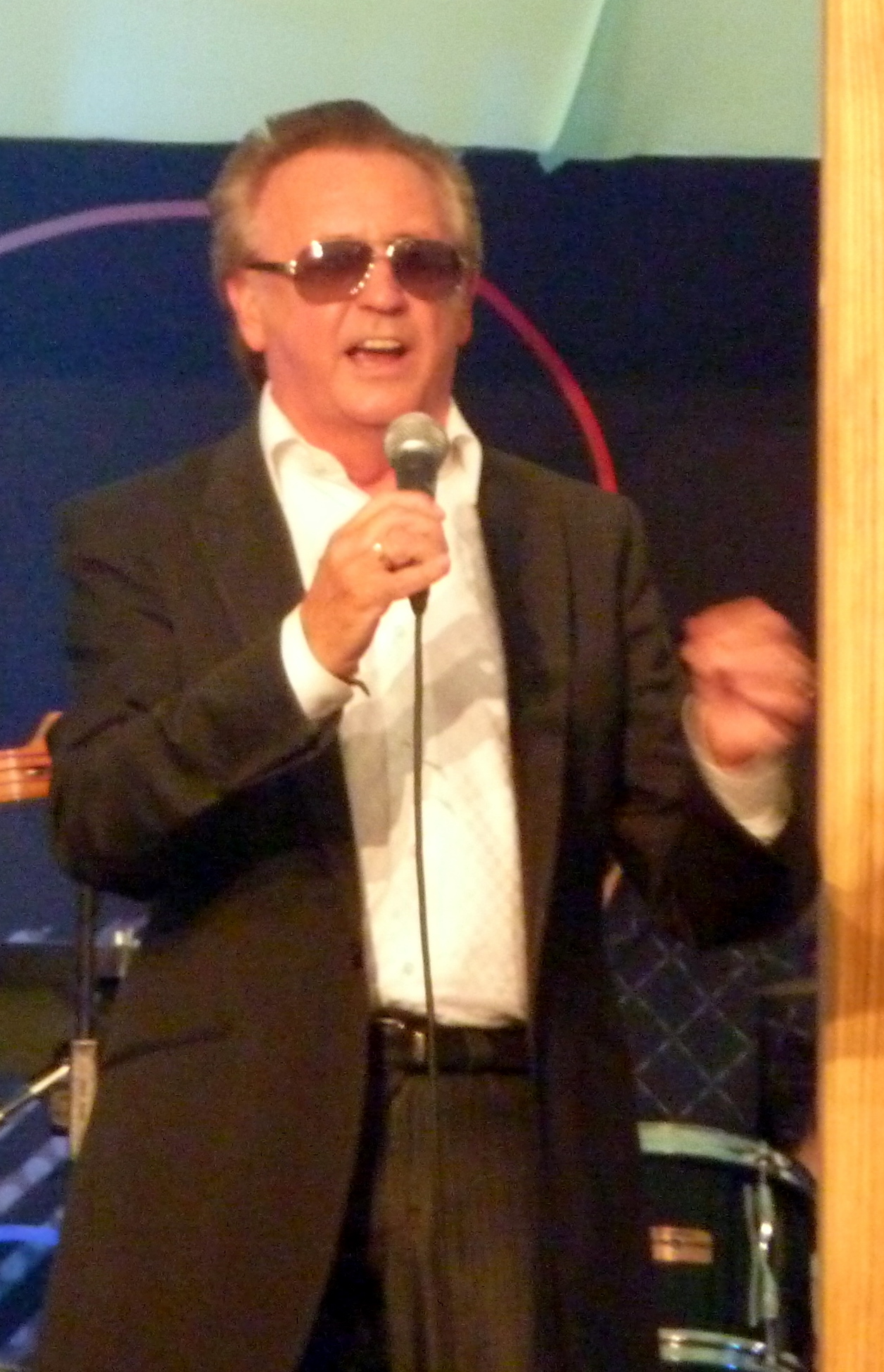 Tony Christie